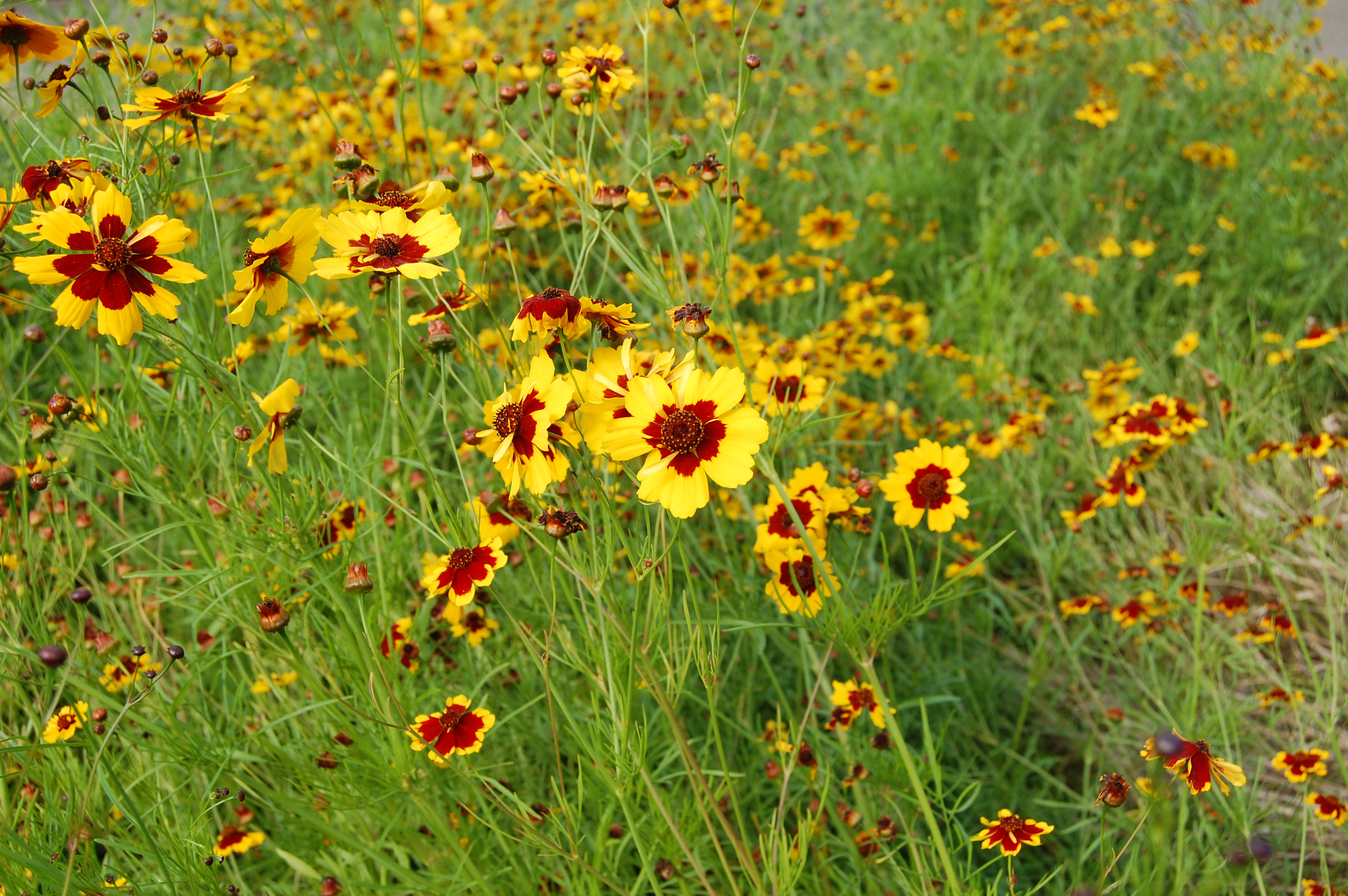 Coreopsis tinctoria